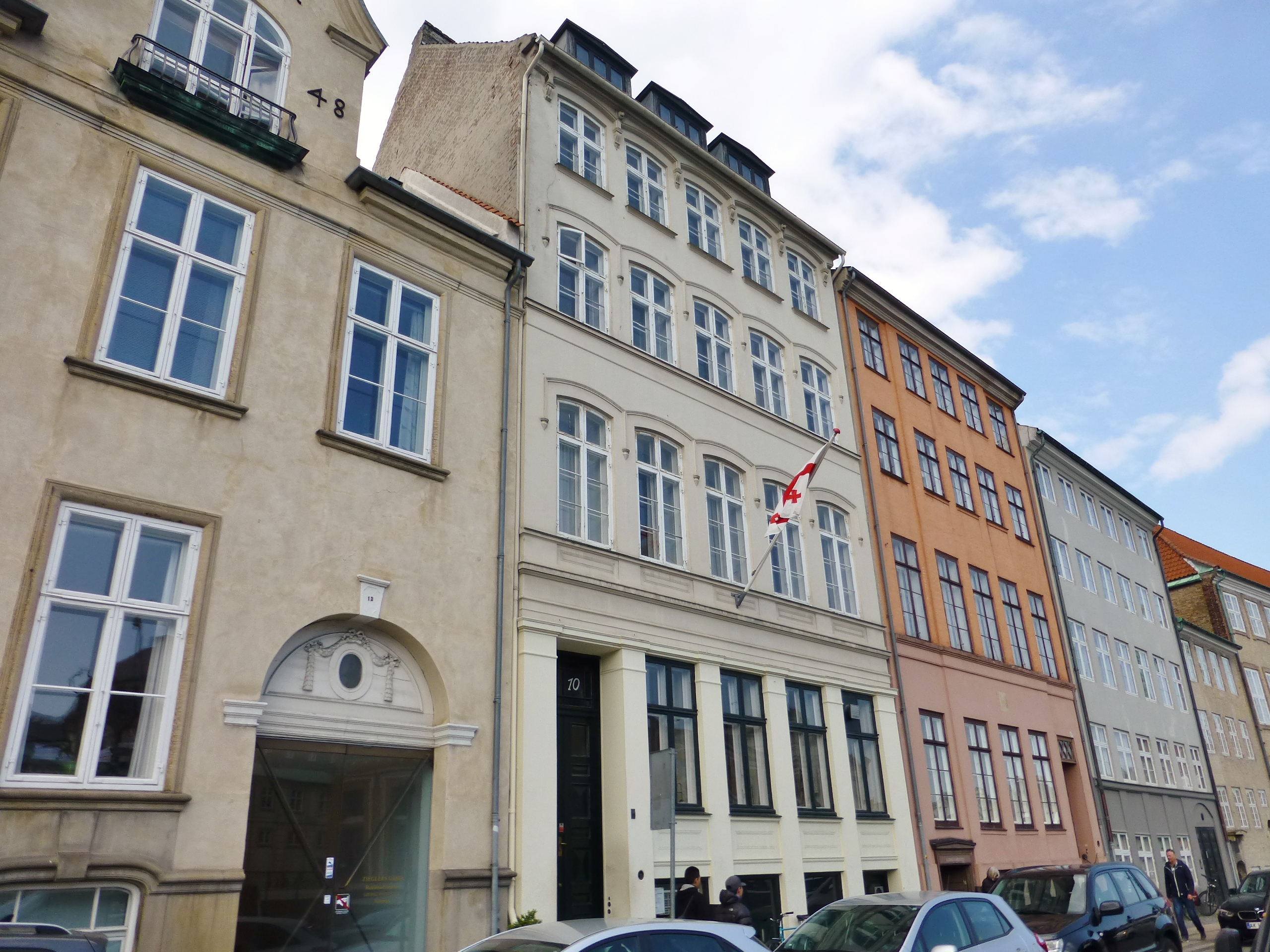 The then embassy of Georgia at Nybrogade in Copenhagen. The embassy is now situated at Kalvebod Brygge.